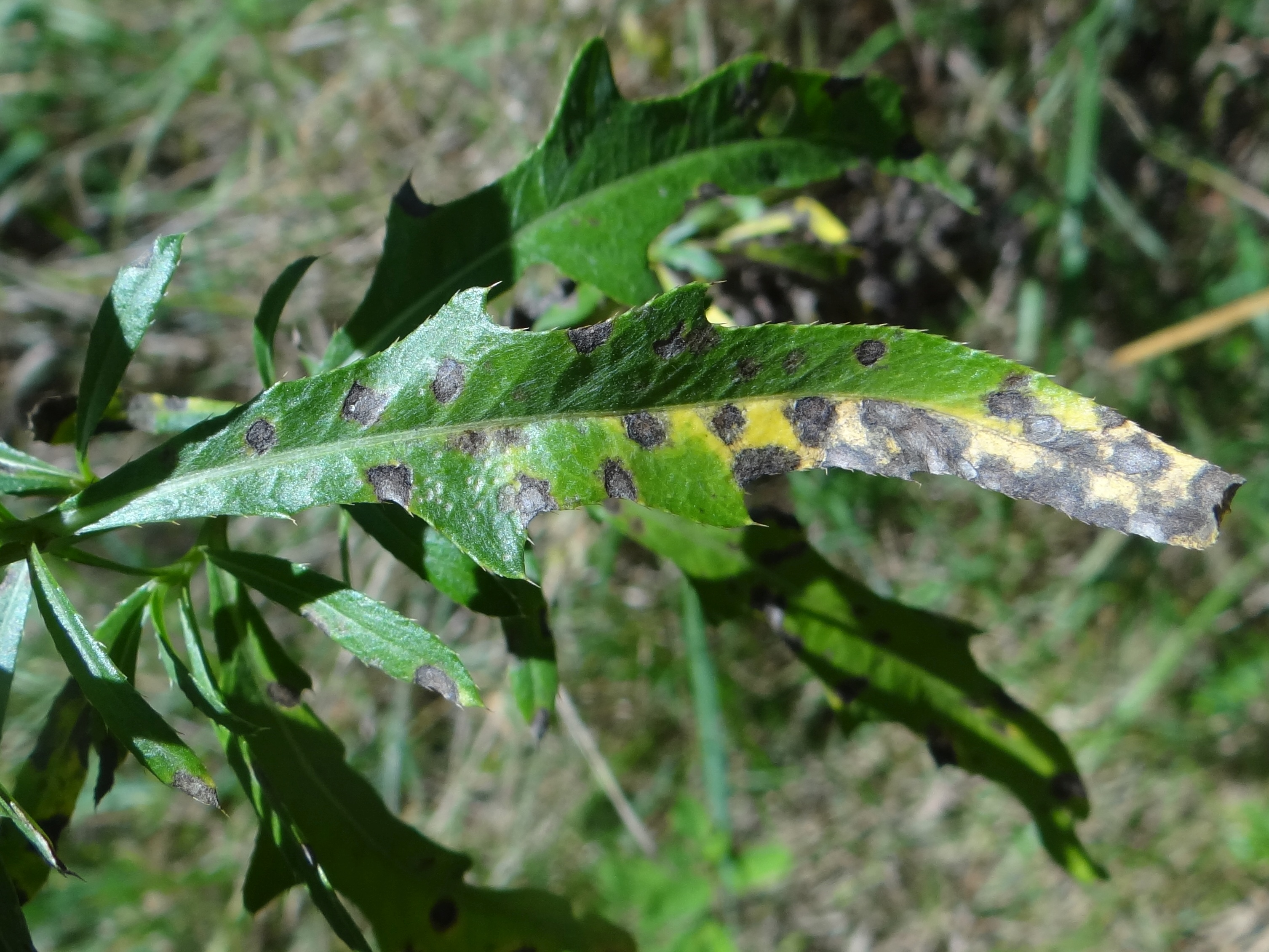 Ramularia cirsii on Cirsium arvense. Location: Poland, Chyszówki